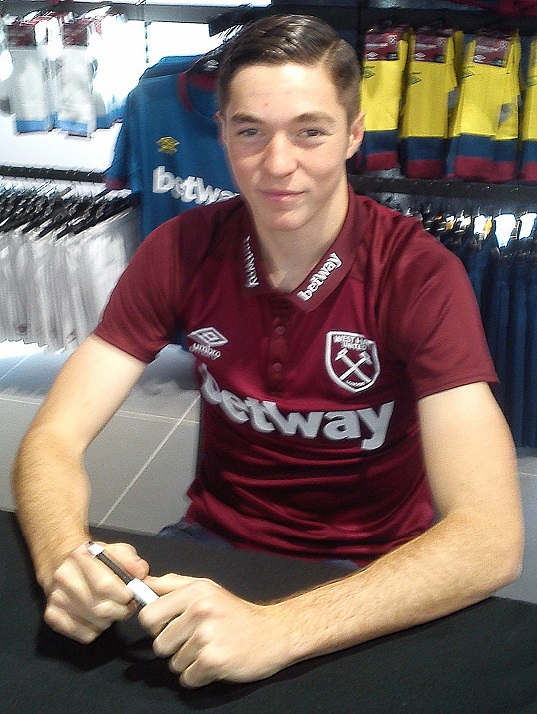 Conor Coventry, footballer for West Ham United. Taken at the West Ham stadium store during a signing session.